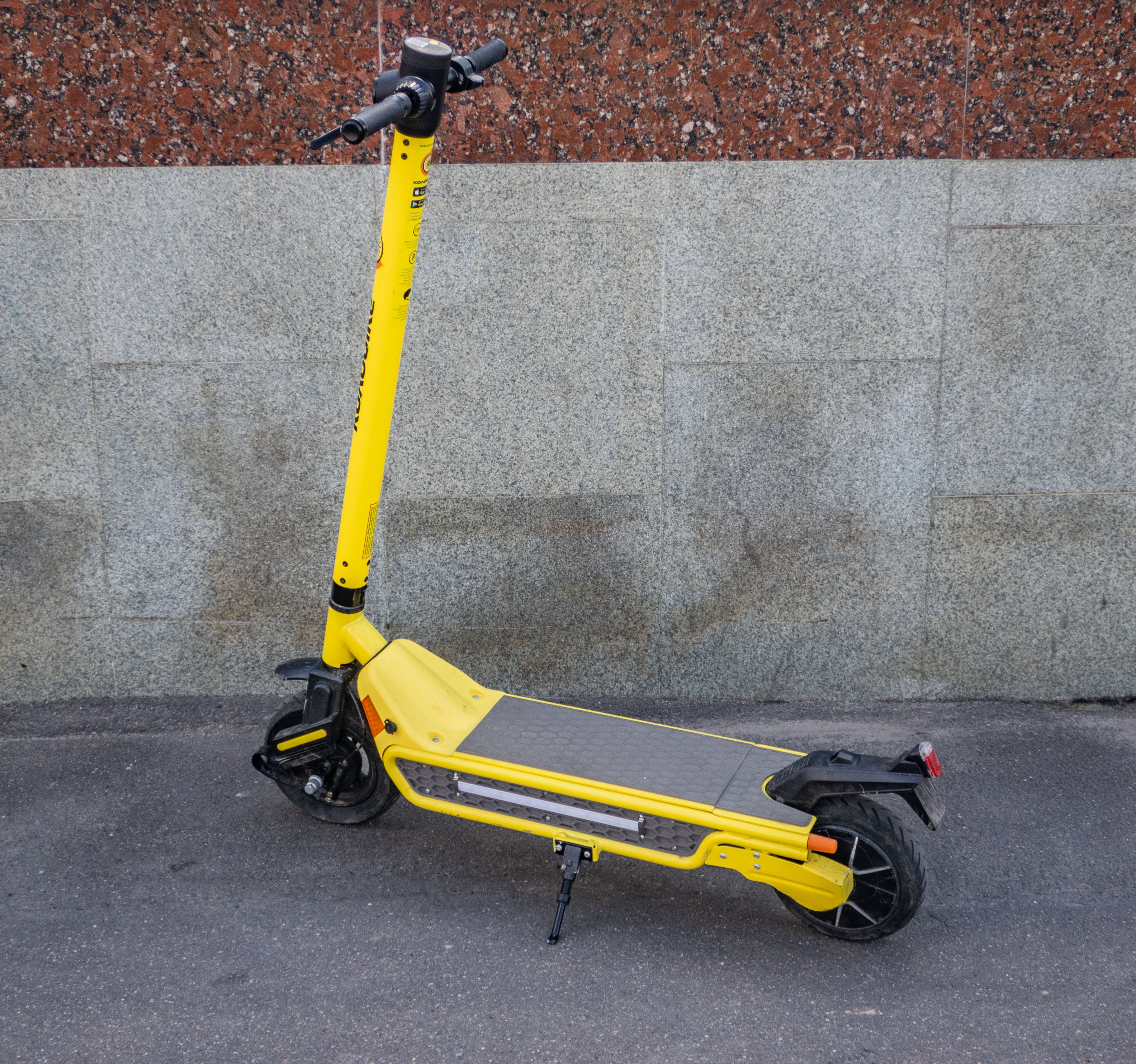 Kolobike electric scooter public share. Minsk, Belarus